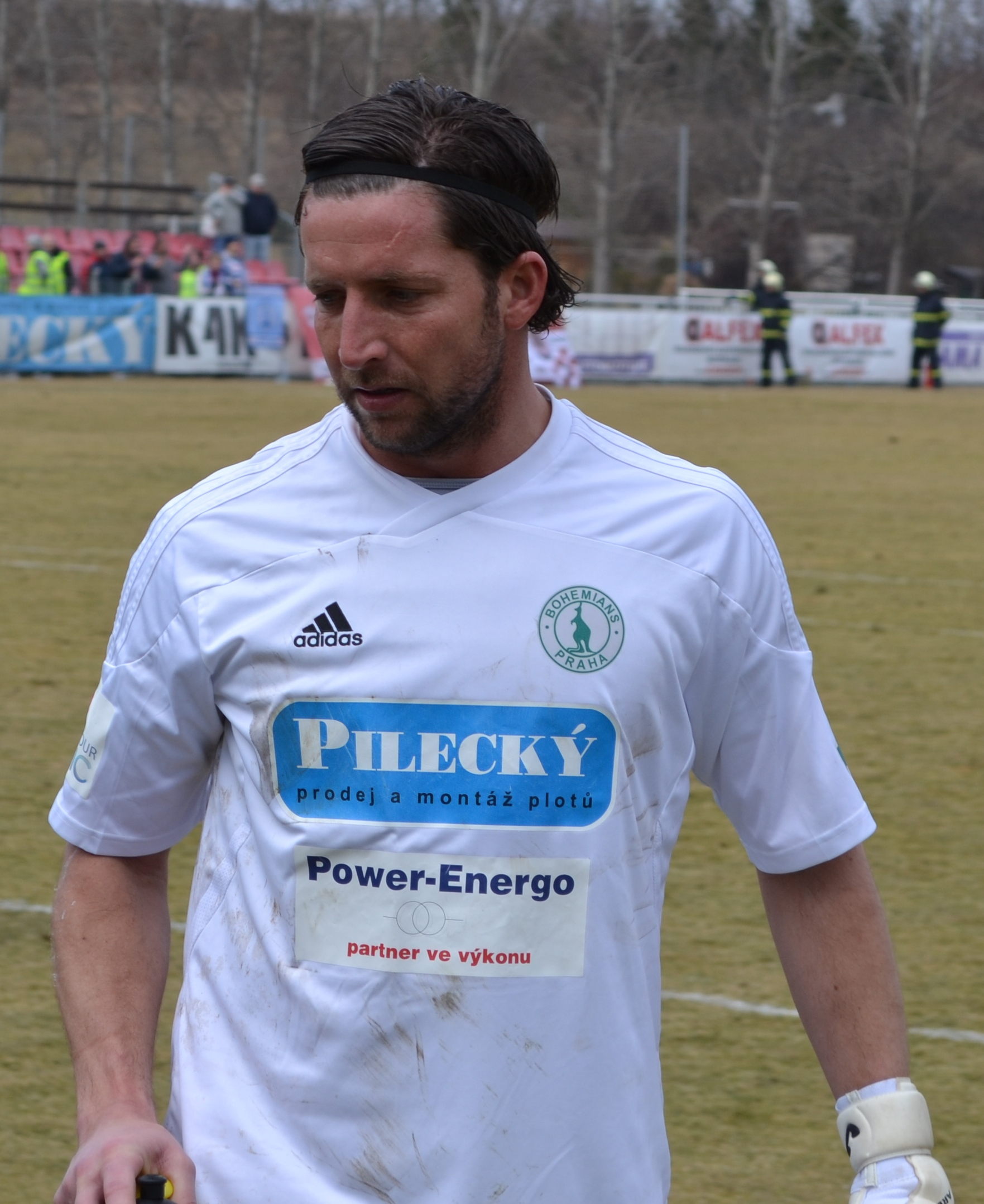 Václav Winter, Czech footballer